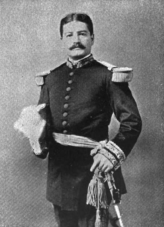 Picture of General Jose Maria Reyna Barrios, President of Guatemala Picture taken from a book back in 1896 written by Dario Gonzalez: Geografia de America Central